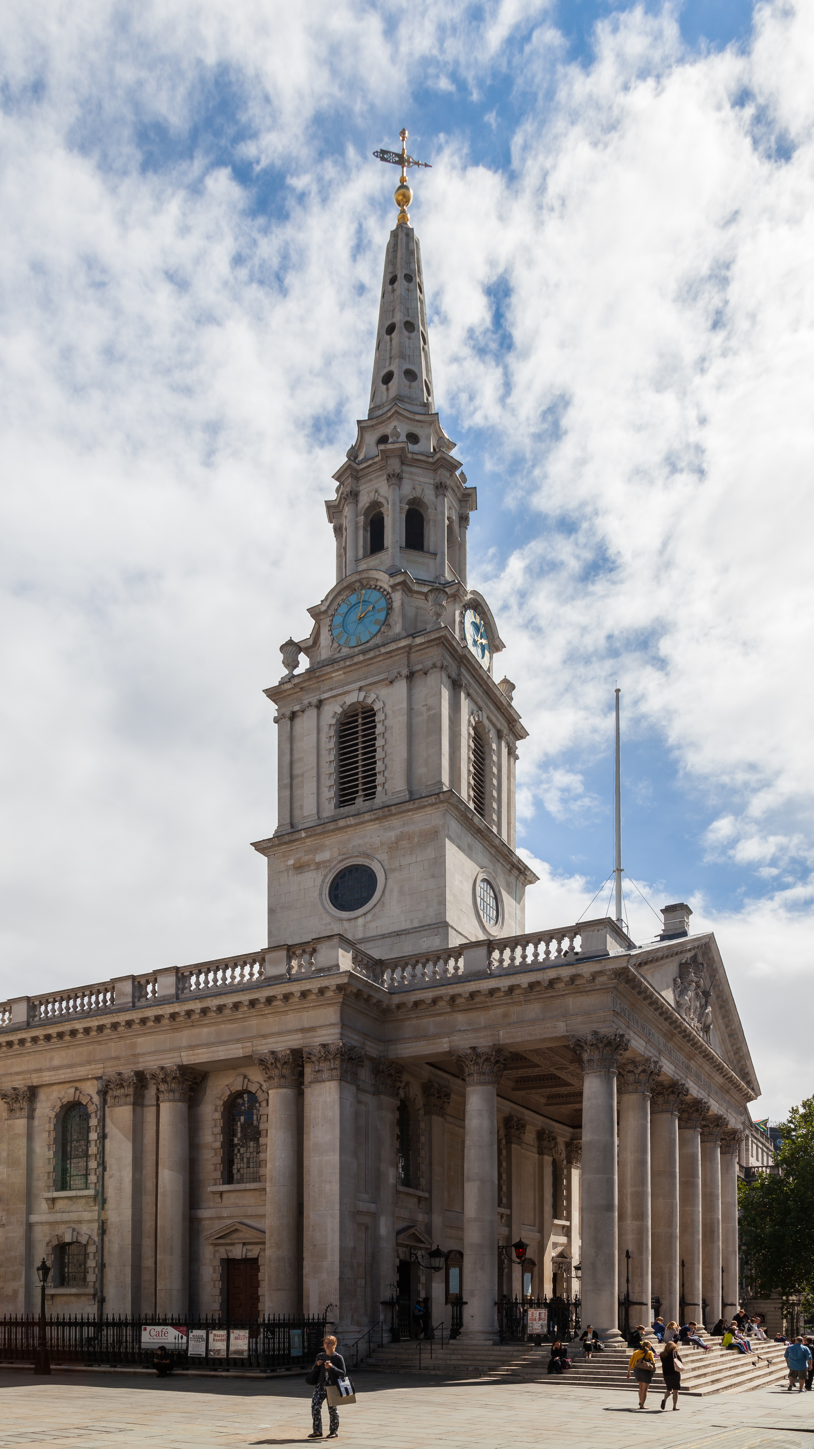 St Martin-in-the-Fields church, London, England